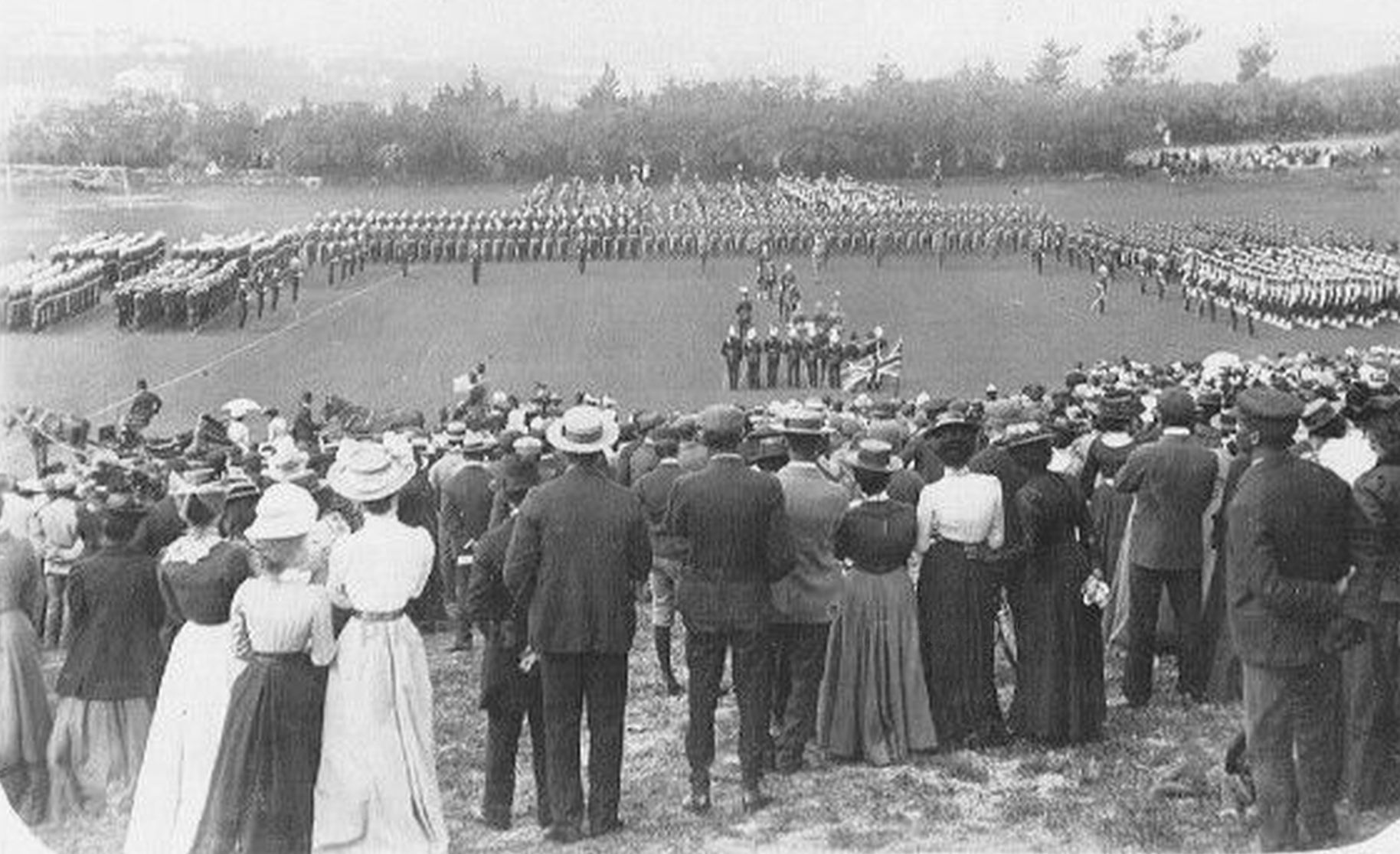 A naval and military parade at Prospect Camp, Bermuda, in 1901. At left (facing right) are contingents from the Royal Navy (front) and Royal Marines (rear). To their left is a contingent from the Royal Artillery. Facing the camera, from left, are contingents from the Royal Engineers, 2nd Battalion of the Royal Warwickshire Regiment, and the Worcestershire Regiment. At right is a contingent from the 1st Battalion of the West India Regiment. Bermuda Command Headquarters staff are at front-centre, with the Governor of Bermuda.